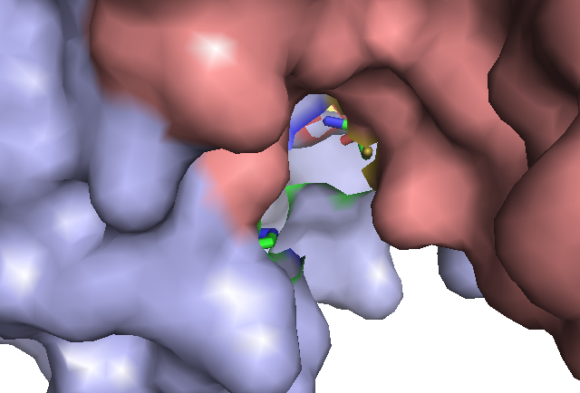 The cysteine and histidine residues in the active site of caspase-3